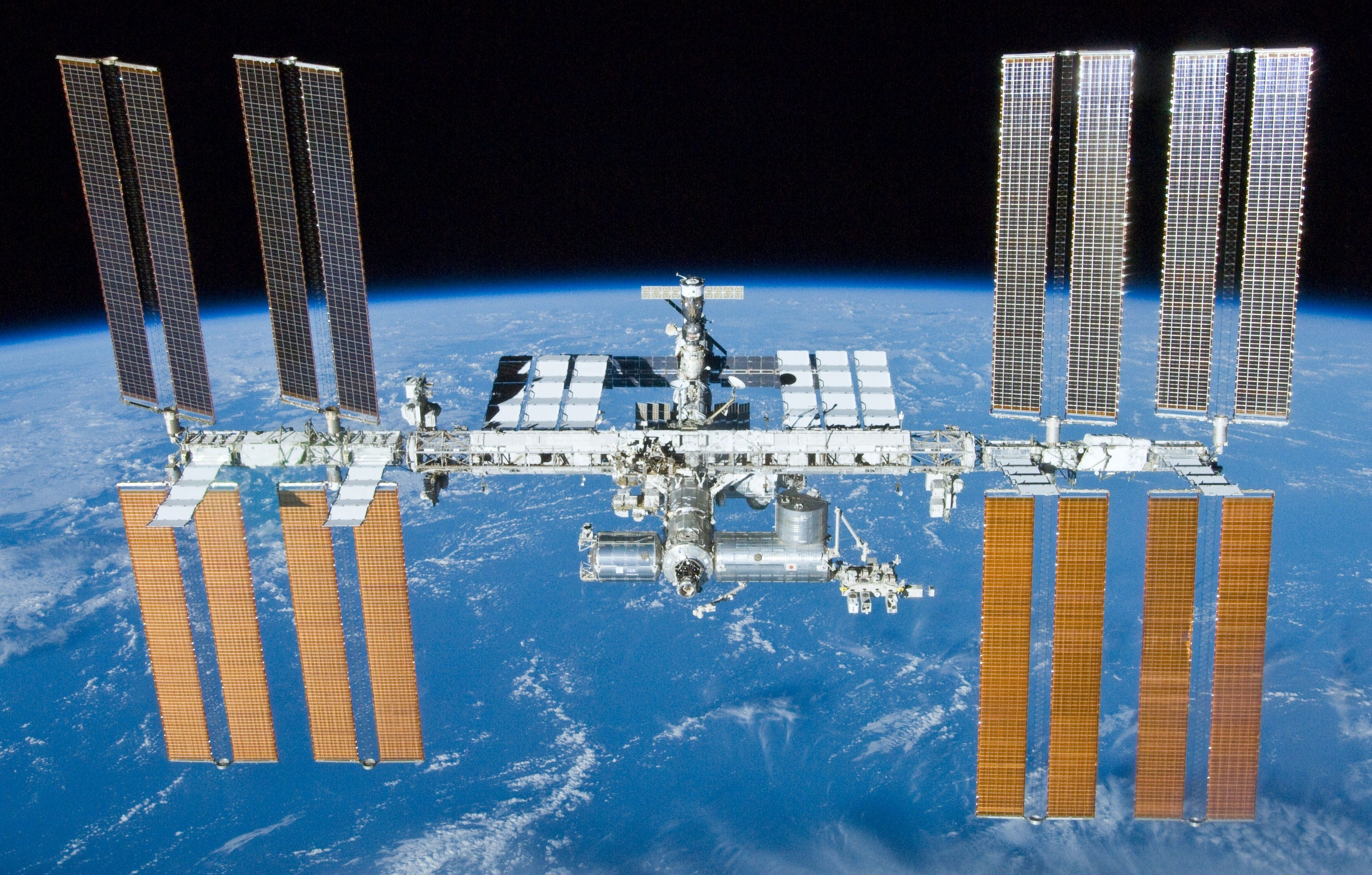 The International Space Station is featured in this image photographed by an STS-132 crew member on board the Space Shuttle Atlantis after the station and shuttle began their post-undocking relative separation. Undocking of the two spacecraft occurred at 10:22 CDT on 23 May 2010, ending a seven-day stay that saw the addition of a new station module, Rassvet, replacement of batteries and resupply of the orbiting outpost.